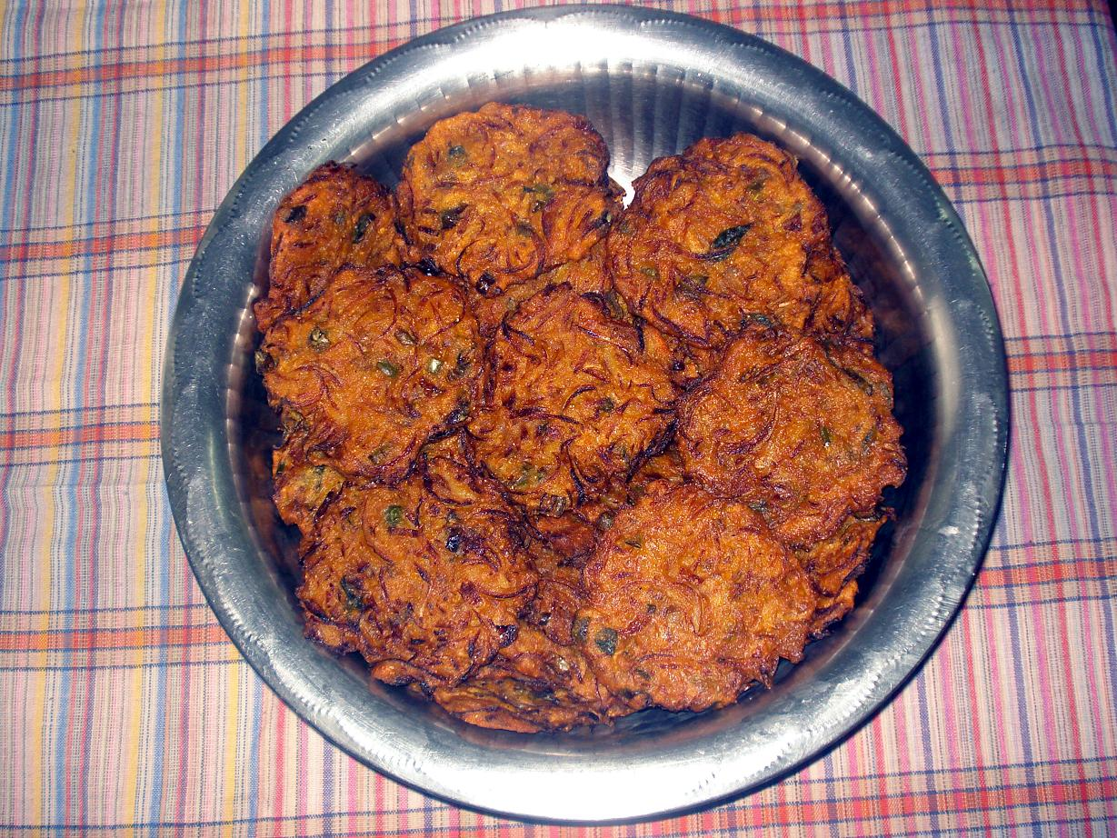 ullivada, The Oniyan vada, common dish seen in Kerala